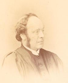 Bishop Alfred Barry (1826–1910), National Library of Australia. Author: Dighton, Richard, 1795-1880.